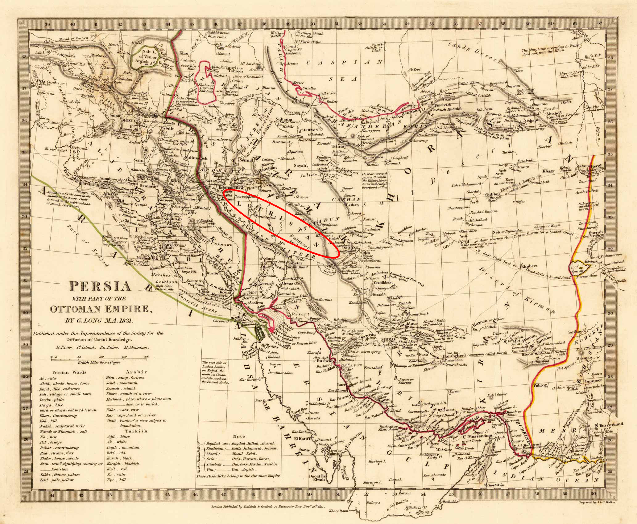 Luristan(Louristan) in 1831